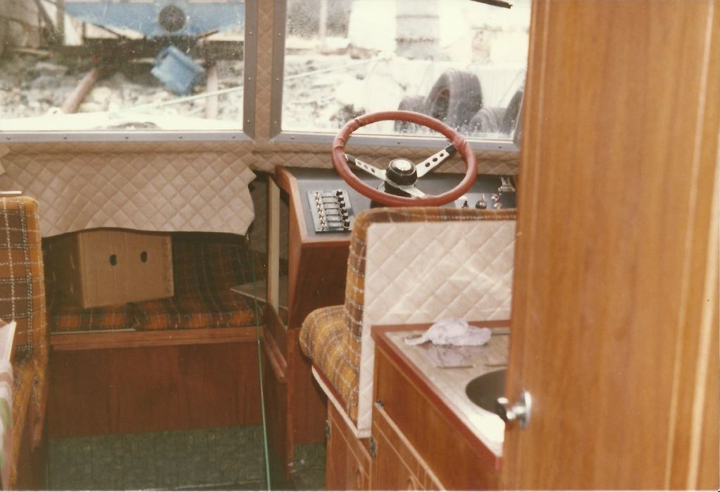 Picture 1980 Karmøy